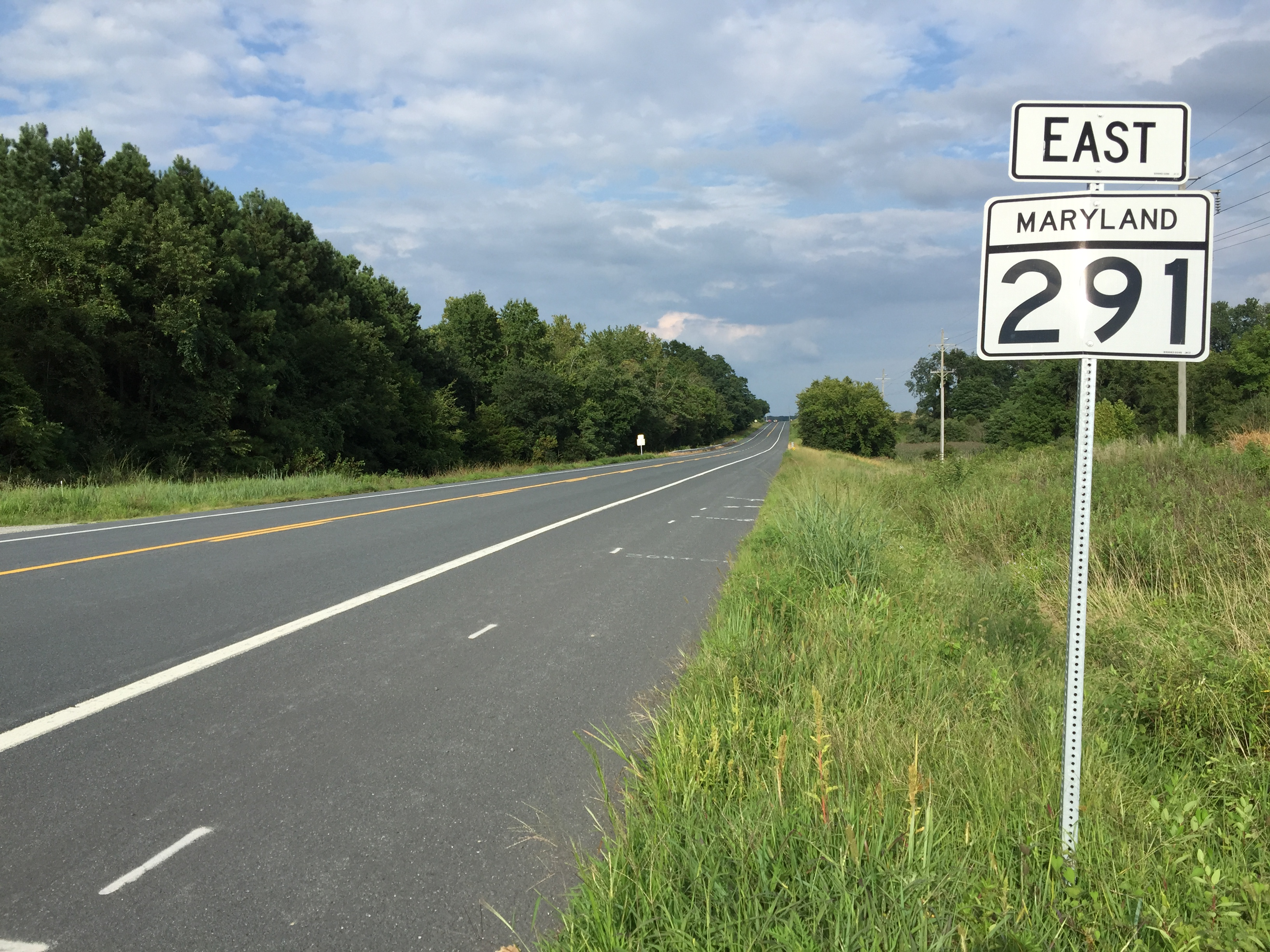 View east along Maryland State Route 291 (River Road) at Maryland State Route 298 (Church Lane) in Chesterville, Kent County, Maryland